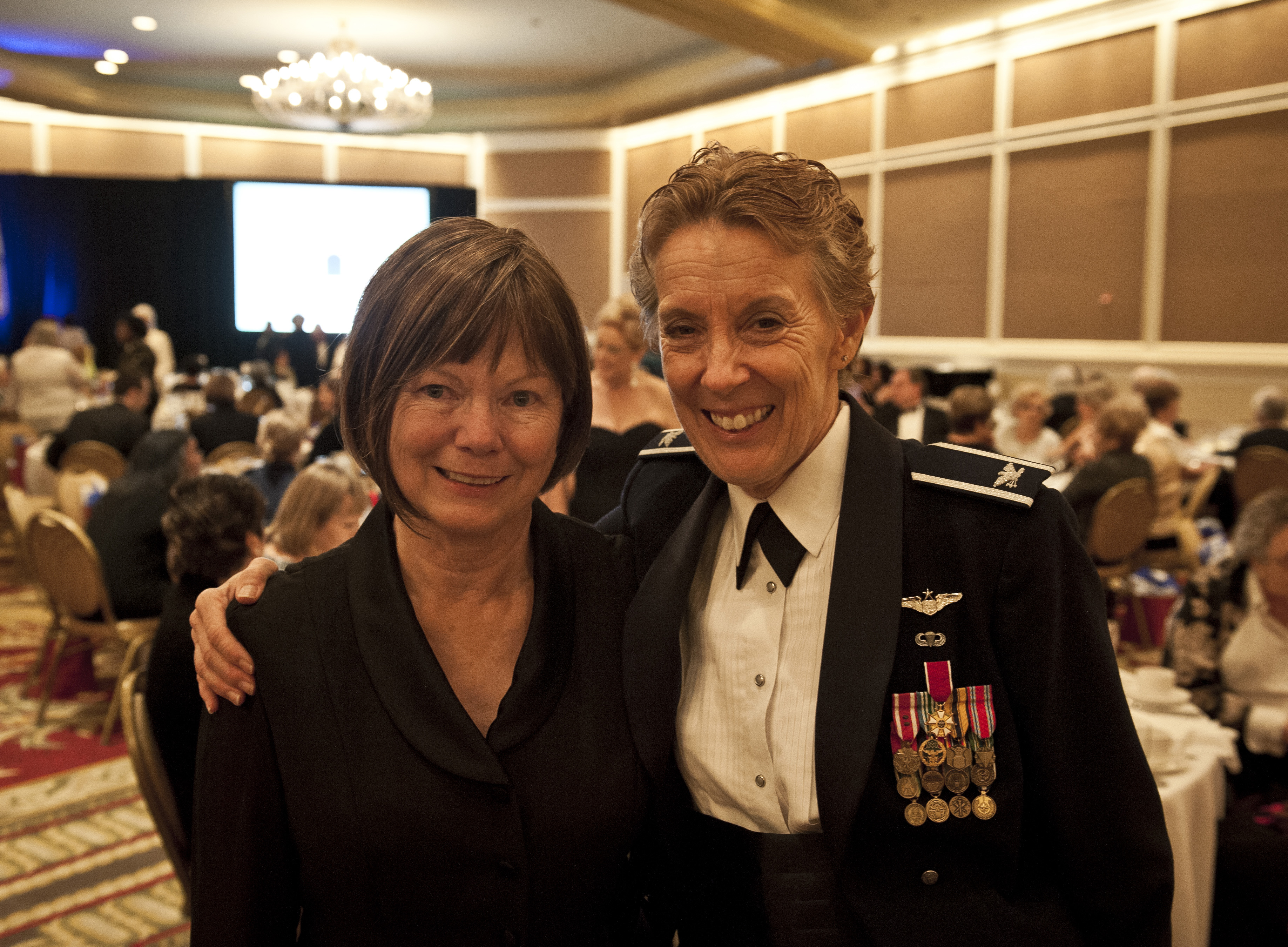 Retired Colonels Kelly Hamilton and Katherine Bacon both attended the 15th anniversary celebration of Women in Military Service for America Memorial in Washington, D.C., Oct. 19, 2012. Hamilton was the pilot and Bacon was the navigator for the Air Force's first all-women flight in 1982. Hamilton and Bacon saw each other for the first time since 1985. (U.S. Air Force photo/Senior Airman Andrew Lee)